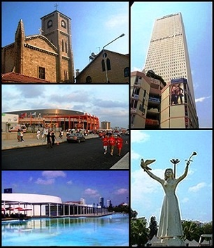 Collage of Mersin